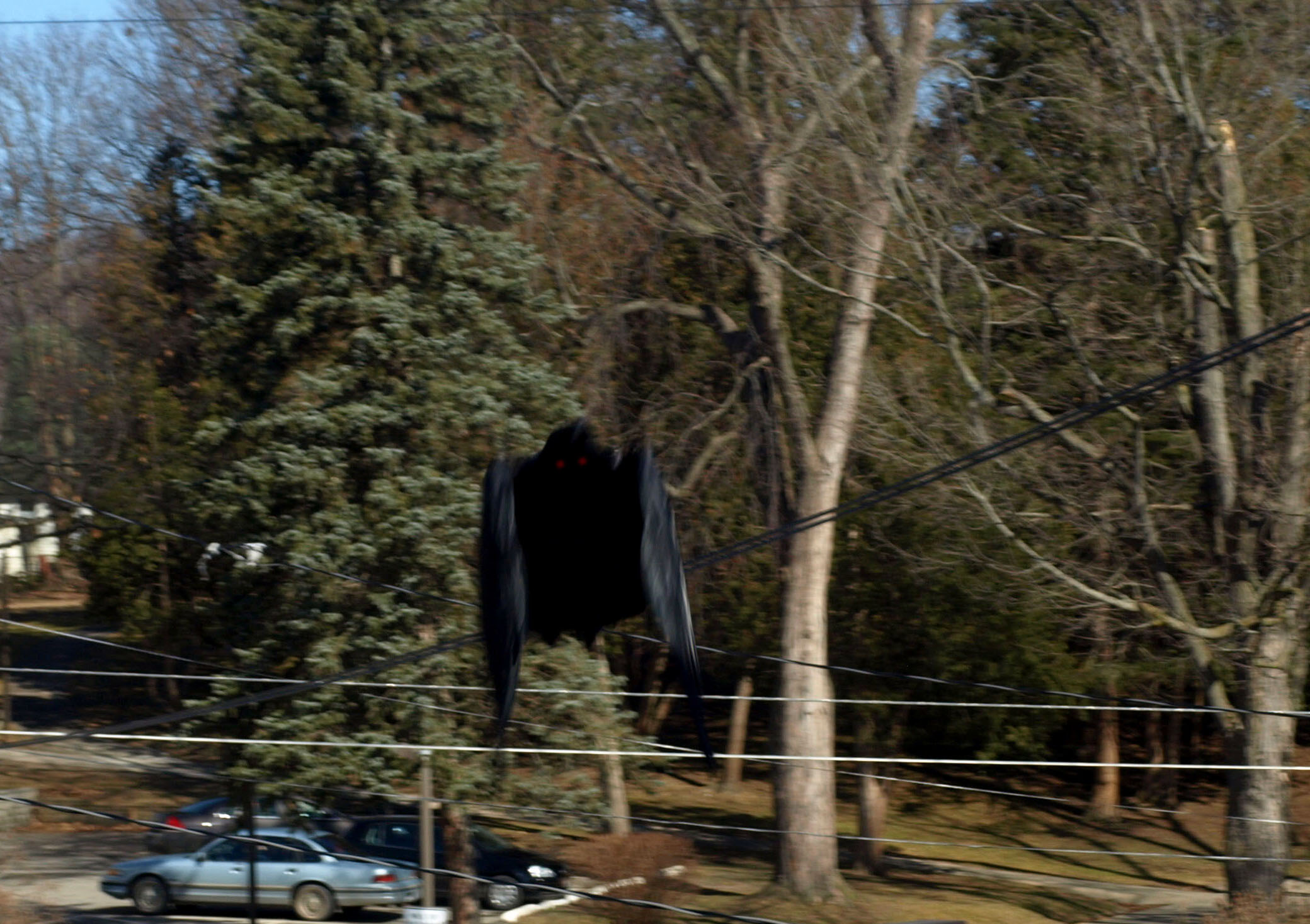 A photo taken from my window...possible mothman sighting?